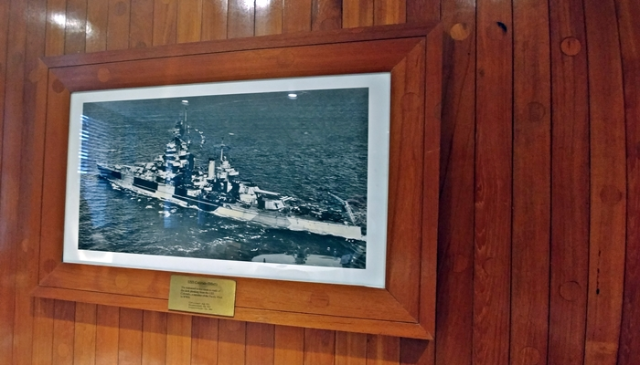 Interior of the Legends Room at the Washington Athletic Club in Seattle, United States, showing a wall constructed from the teak decking of the former US Colorado (BB-45), along with a framed photo of the ship.